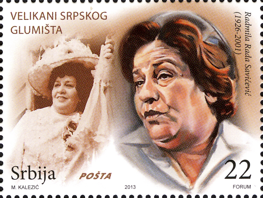 Doyens of Serbian Theatre